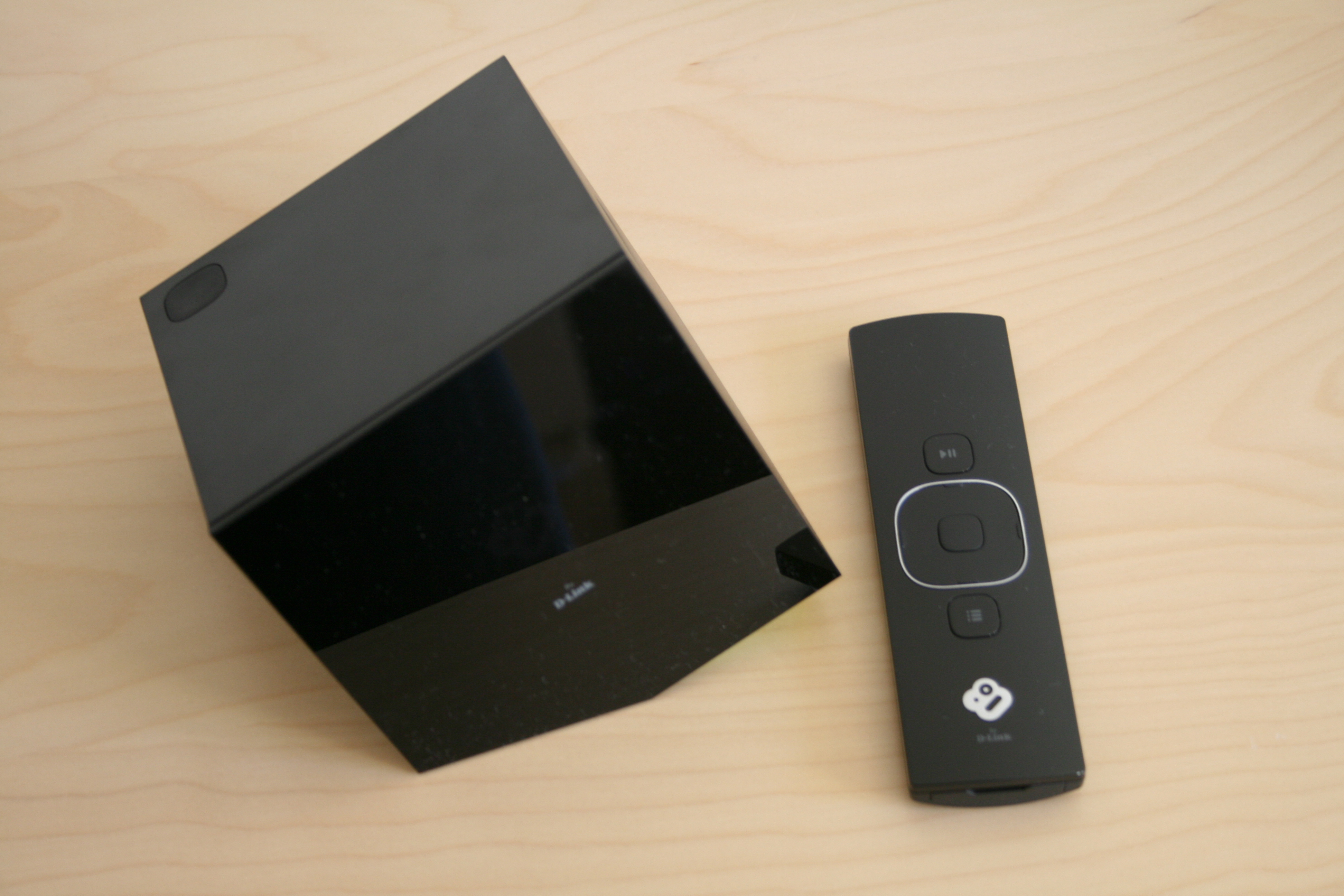 The Boxee Box alongside the remote. The remote is RF-based, and there's no IR sensor for universal remotes such as the Logitech Harmony. However, I think you can plug in a USB IR receiver and use that, though I'm not 100% sure. The software itself is pretty good - it's Boxee, so it's kinda...weird, in places, but for what myself and my dad use it for (streaming video from my PC to the lounge TV), it's great. So far hasn't struggled with anything I've thrown at it - 720p MPEG4/H264 MKV and MP4 files, 1080i MPEG2 TS files, and 1080p MPEG4/H264 MKV files all the way up to a huge 22GB copy of Avatar that I have. It takes a few moments to buffer the content over Ethernet, but once it's done that it's perfect. Can fast forward, rewind, load subtitles, etc, no problem. :)